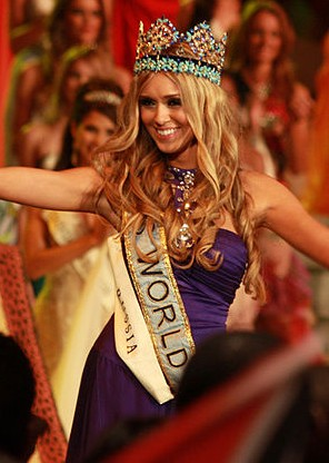 Miss World 2008